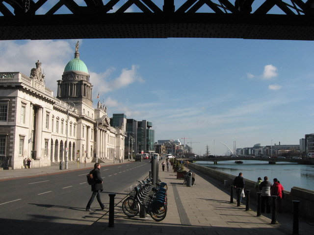 Custom House and Custom House Quay, Dublin, Ireland.